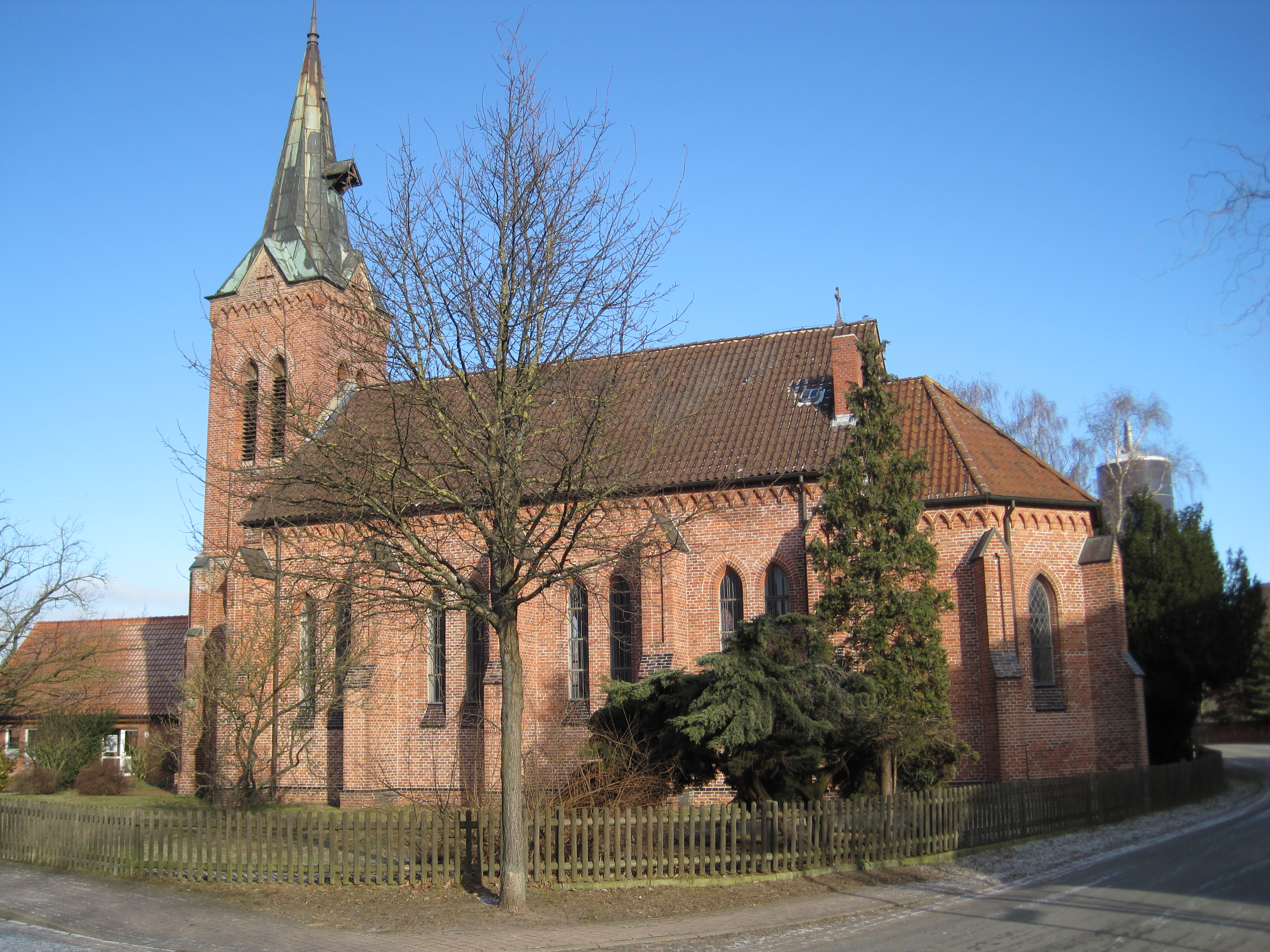 Church in Echem near Lüneburg